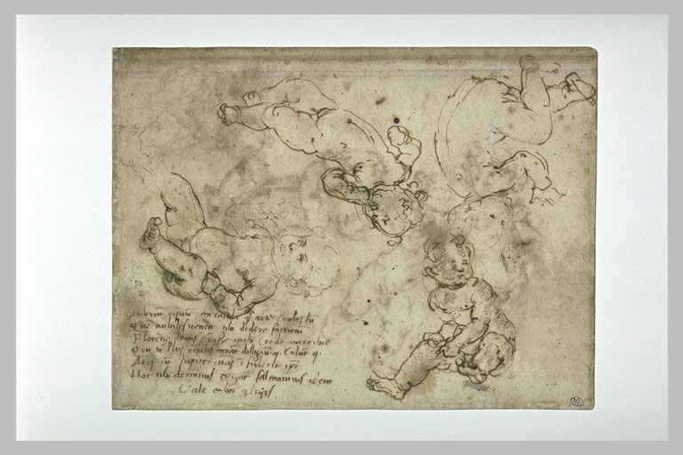 Andrea del Verrocchio